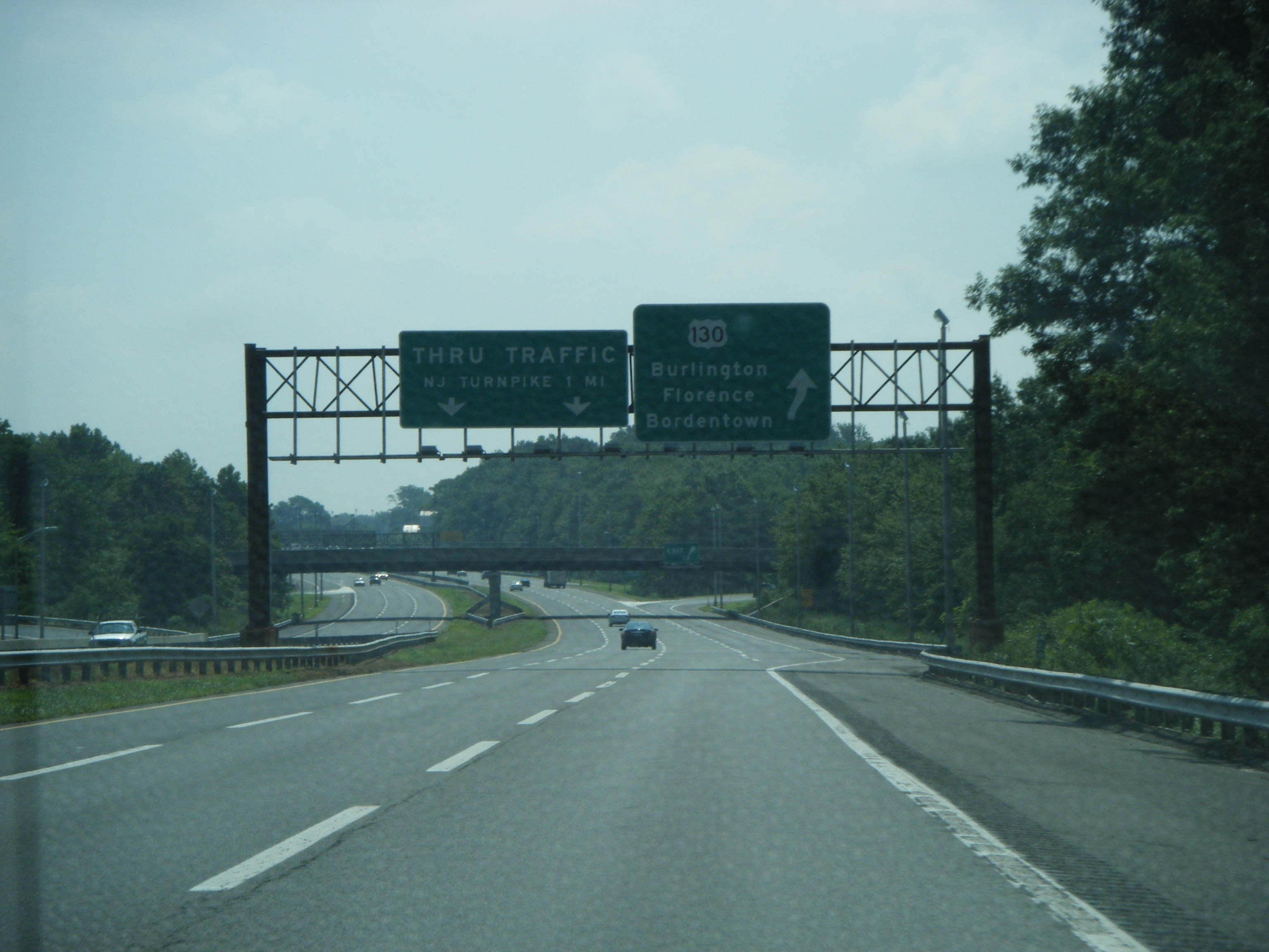 Eastbound Pearl Harbor Memorial Extension of the New Jersey Turnpike (northbound Interstate 95) at the exit for U.S. Route 130 (exit 6A) in Florence Township, New Jersey